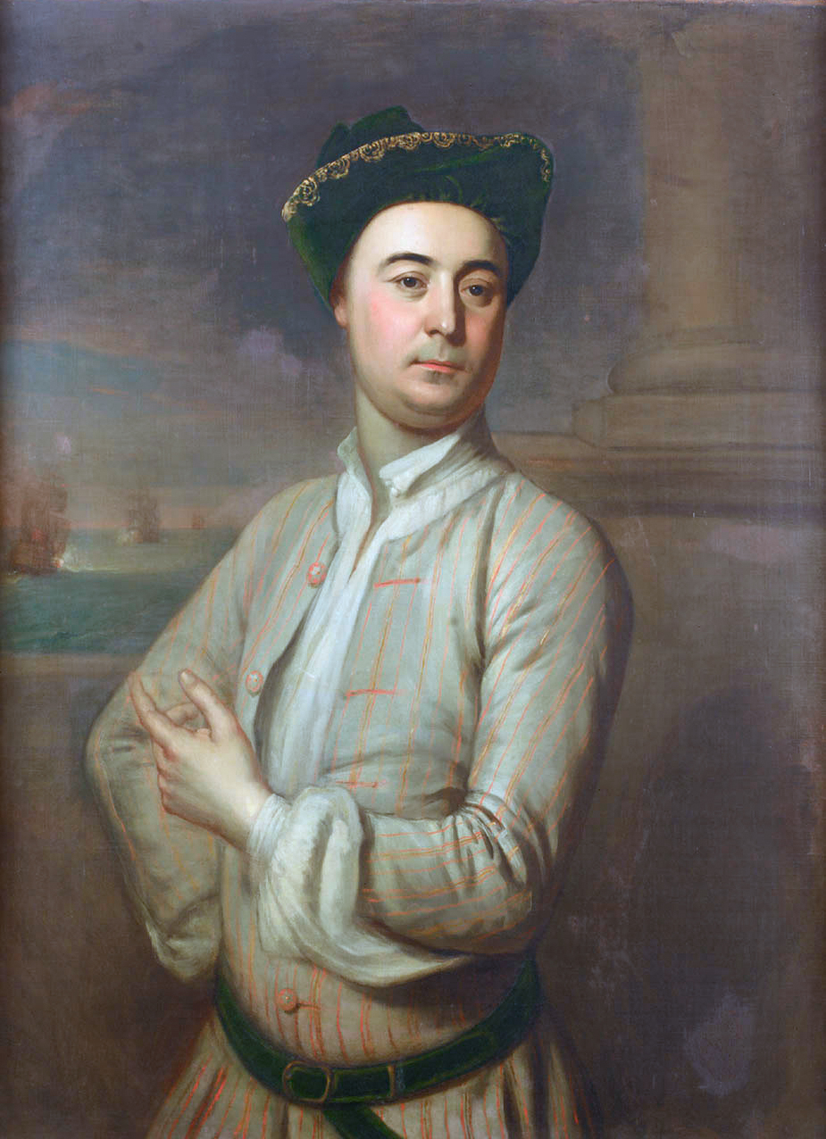 Admiral Sir Robert Harland, circa 1715-1784